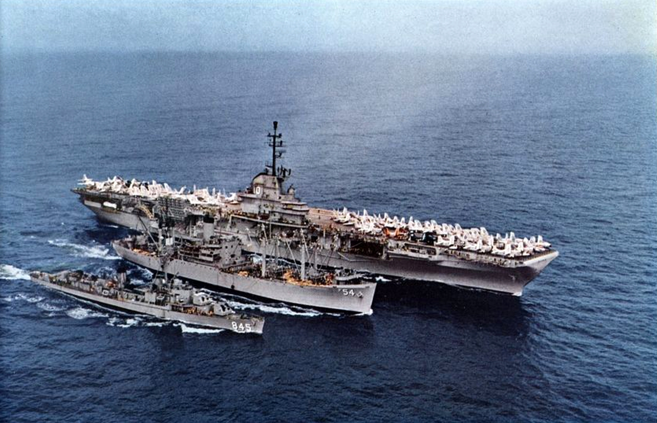 The U.S. Navy stored ship USS Pictor (AF-54) replenishing the aircraft carrier USS Yorktown (CVA-10) and the destroyer USS Bausell (DD-845), in 1957. Yorktown, with assigned Carrier Air Group 19 (CVG-19), was deployed to the Western Pacific from 9 March to 15 August 1957. Following this cruise, Yorktown was redesignated as an anti-submarine carrier ("CVS") on 1 September 1957.